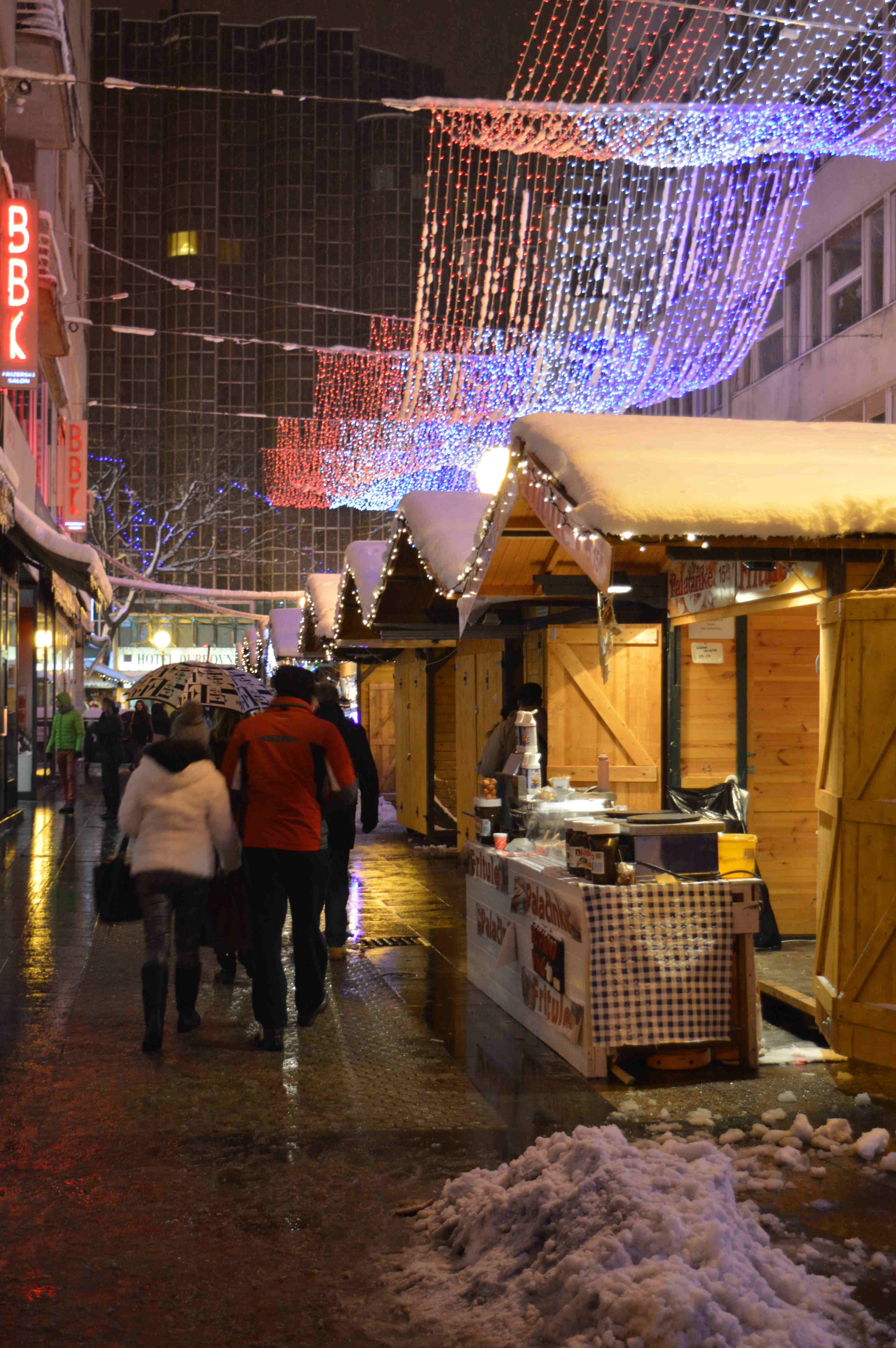 Christmas lights in Zagreb